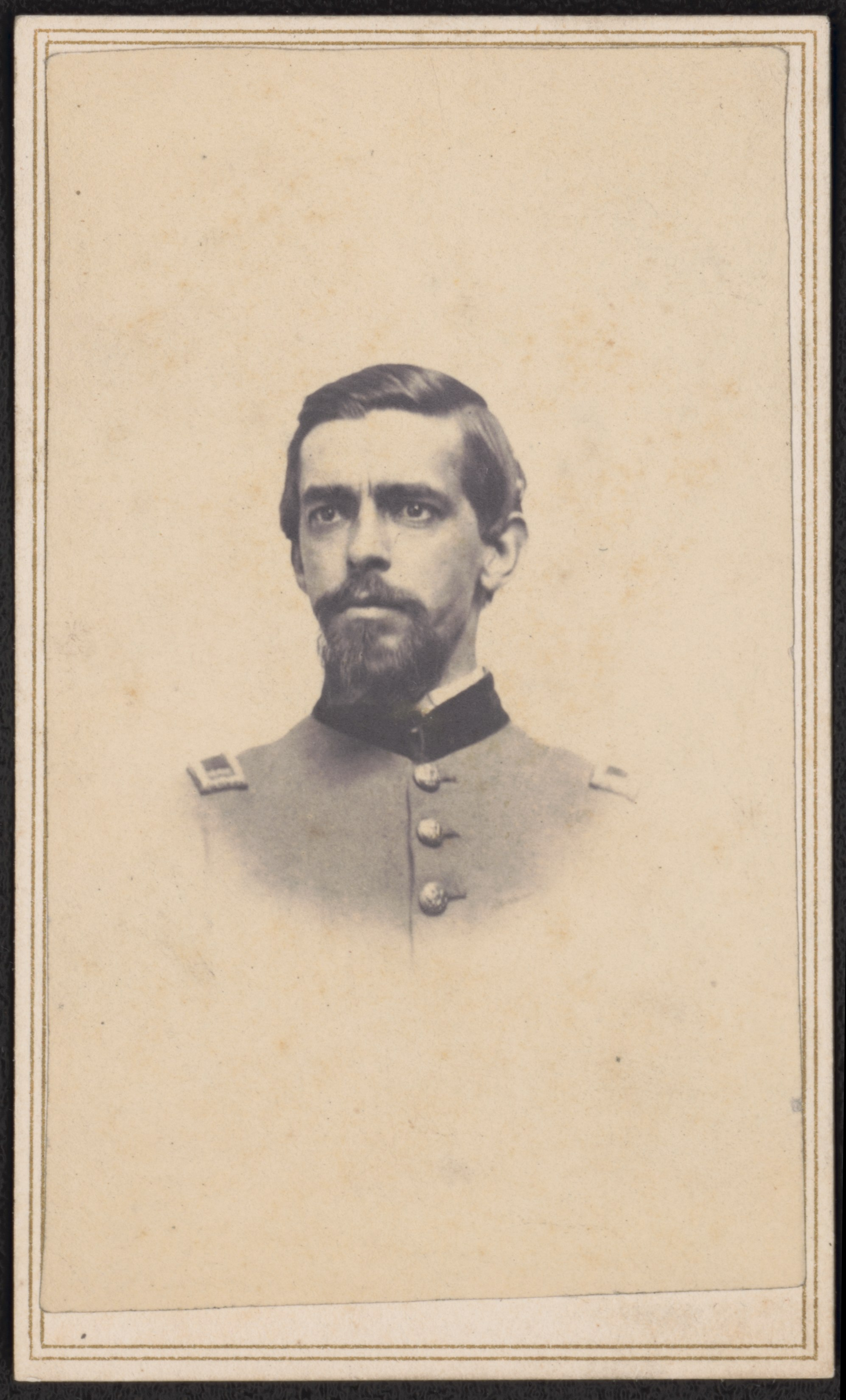 Title: Lieutenant Colonel John B. Johnson of Co. E, 11th Pennsylvania Infantry Regiment, 3rd Regular Army Cavalry Regiment, and 6th Regular Army Cavalry Regiment in uniform Abstract/medium: 1 photograph : albumen print on card mount ; mount 11 x 6 cm (carte de visite format)